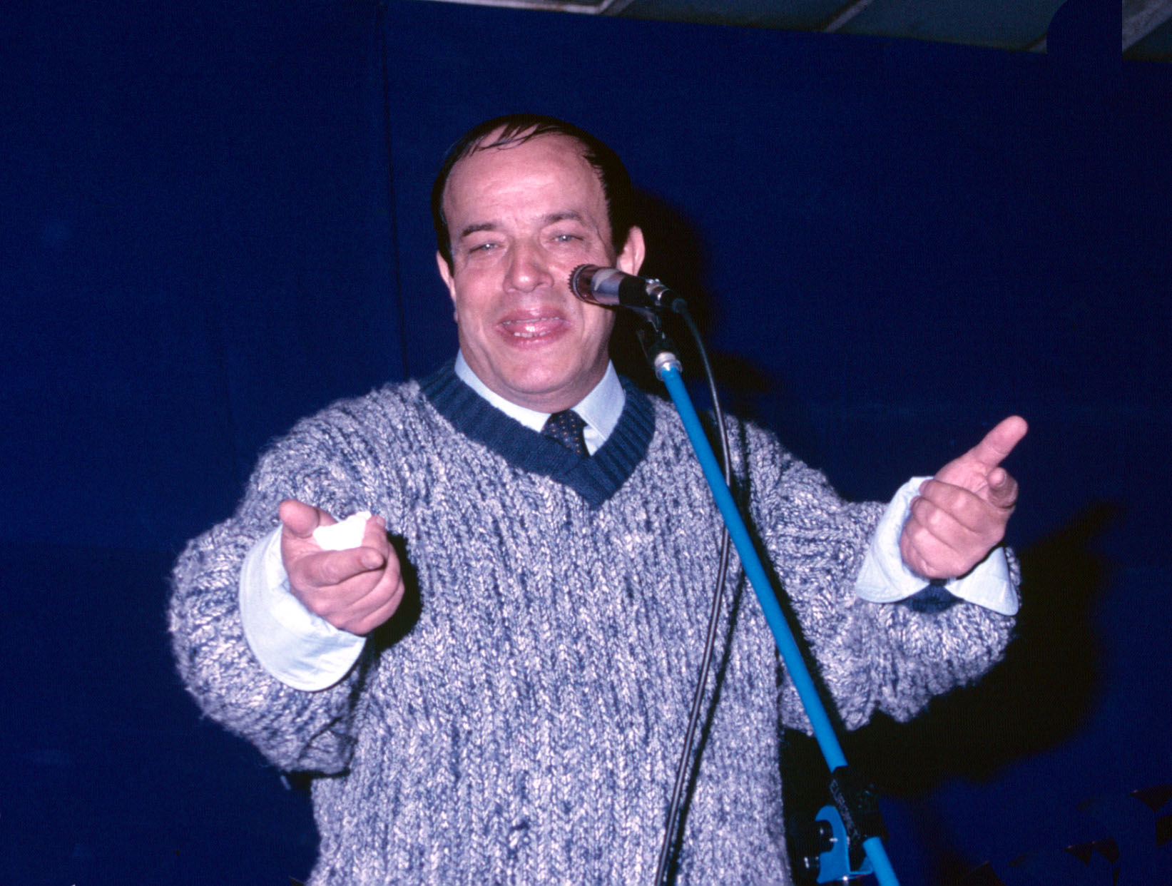 photo by the author